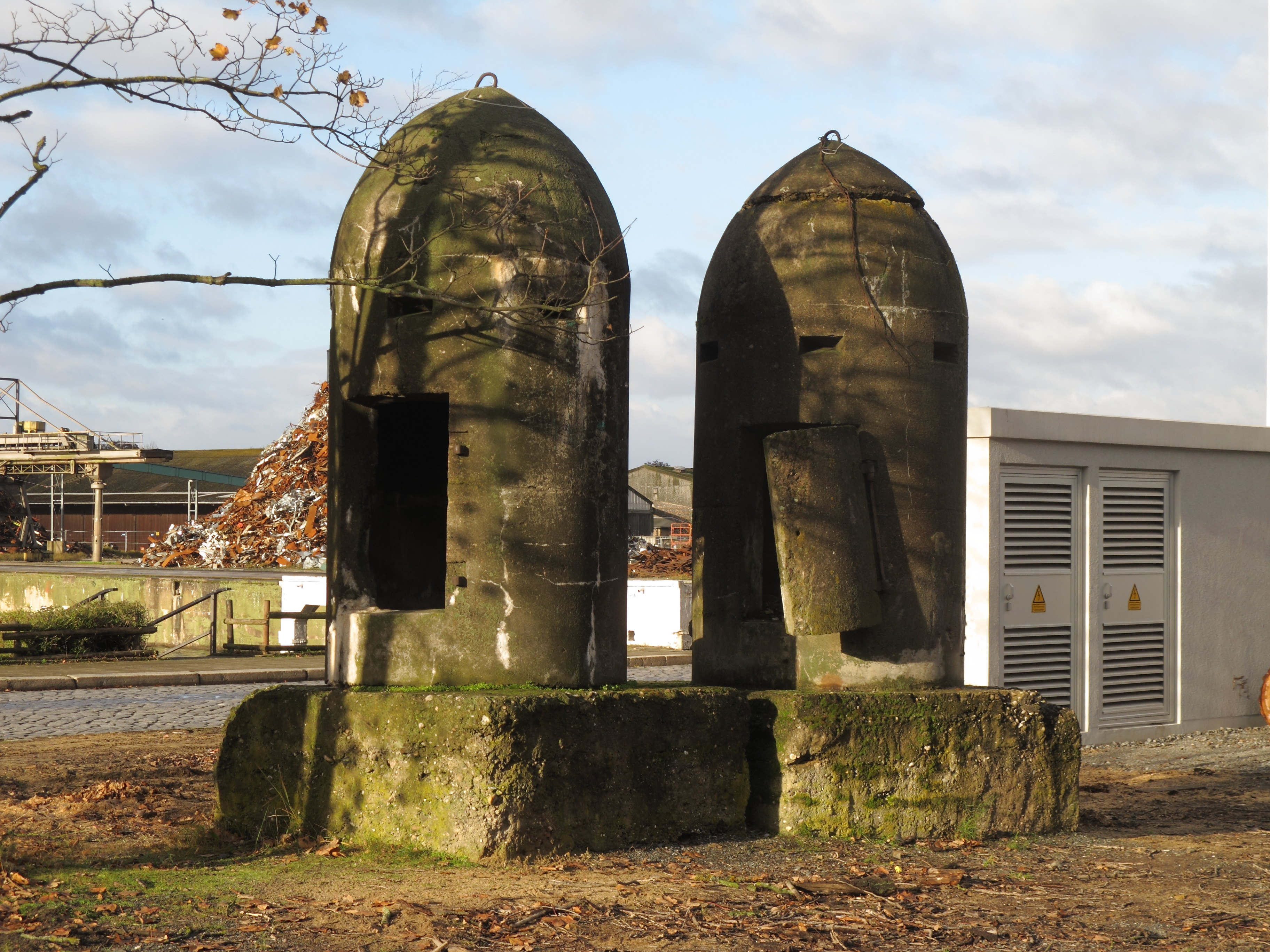 German single person bunkers in the inland port of Braunschweig